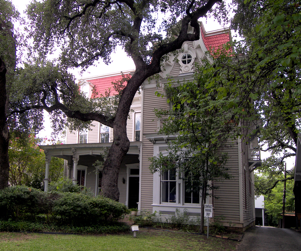 The Robinson-Macken House in Austin, Texas, United States. The house was listed on the National Register of Historic Places on September 12, 1985 and designated a Recorded Texas Historic Landmark in 1986.